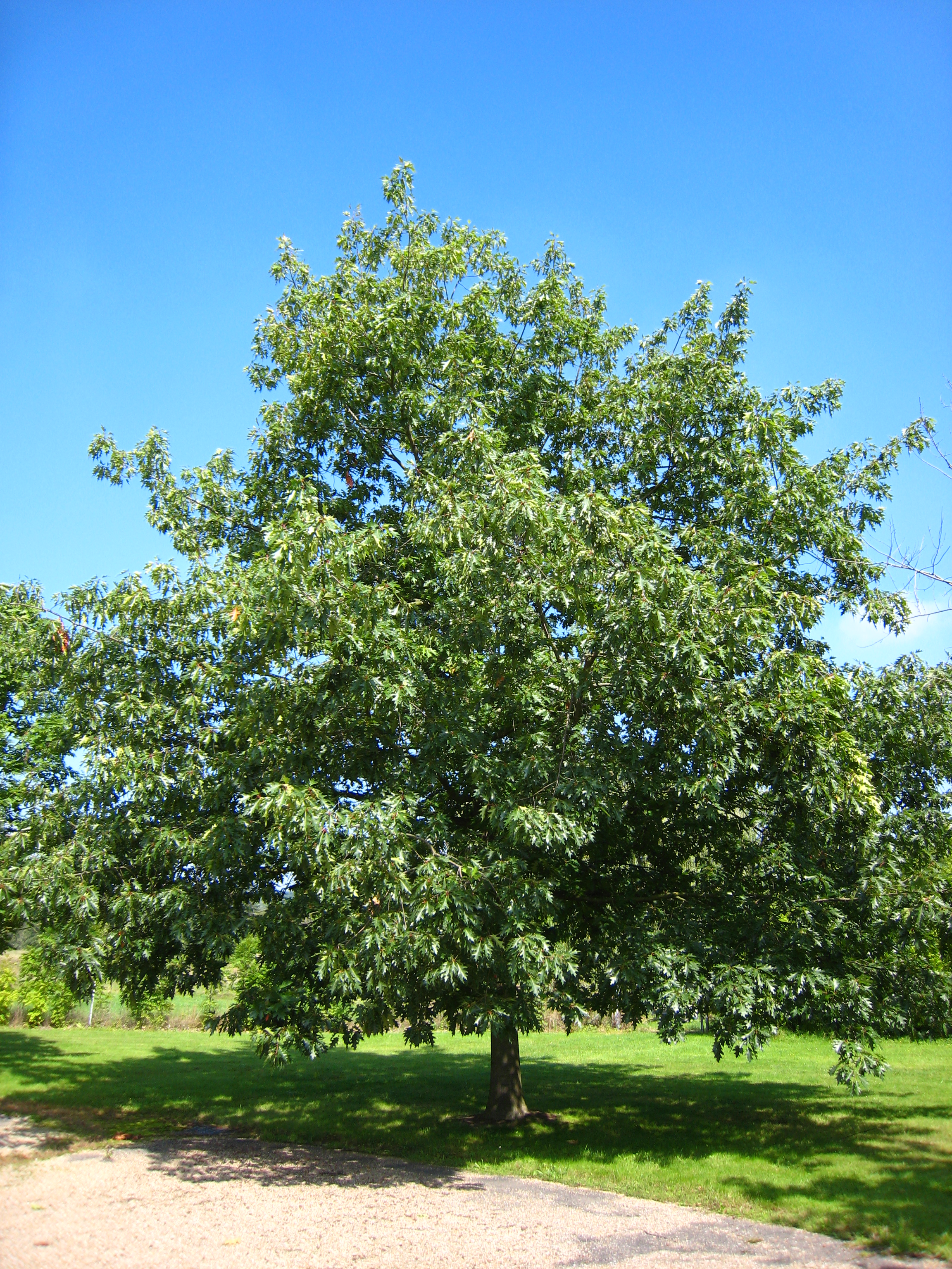 Quercus rubra in the Arboretum de Chèvreloup in Rocquencourt